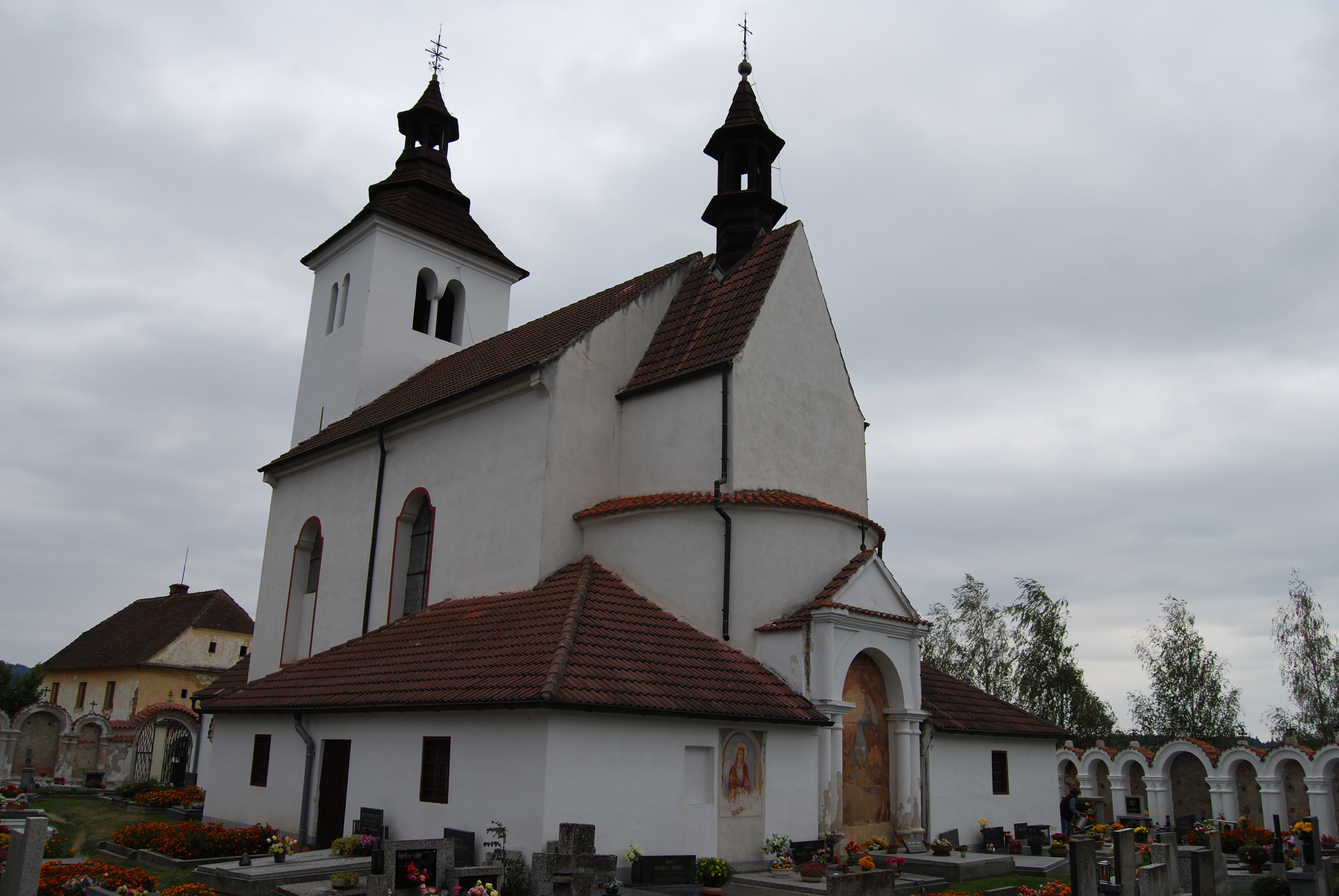 Albrechtice nad Vltavou village in Pisek District, Czech Republic. Church of sant Peter and Paul.